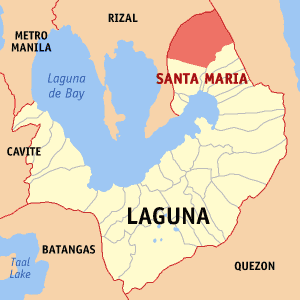 Locator map of Santa Maria in Laguna, Philippines.